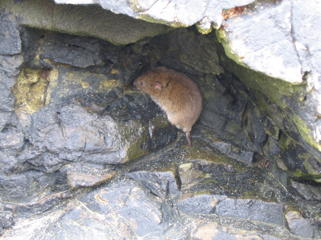 Microtus Agrestis. I happened to spot this field vole (Microtus agrestis) scampering alongside a run-off stream on the beach at Porth Dafarch, and saw that it had cornered itself in a rock crevice. Luckily it stayed put long enough for a couple of photos.